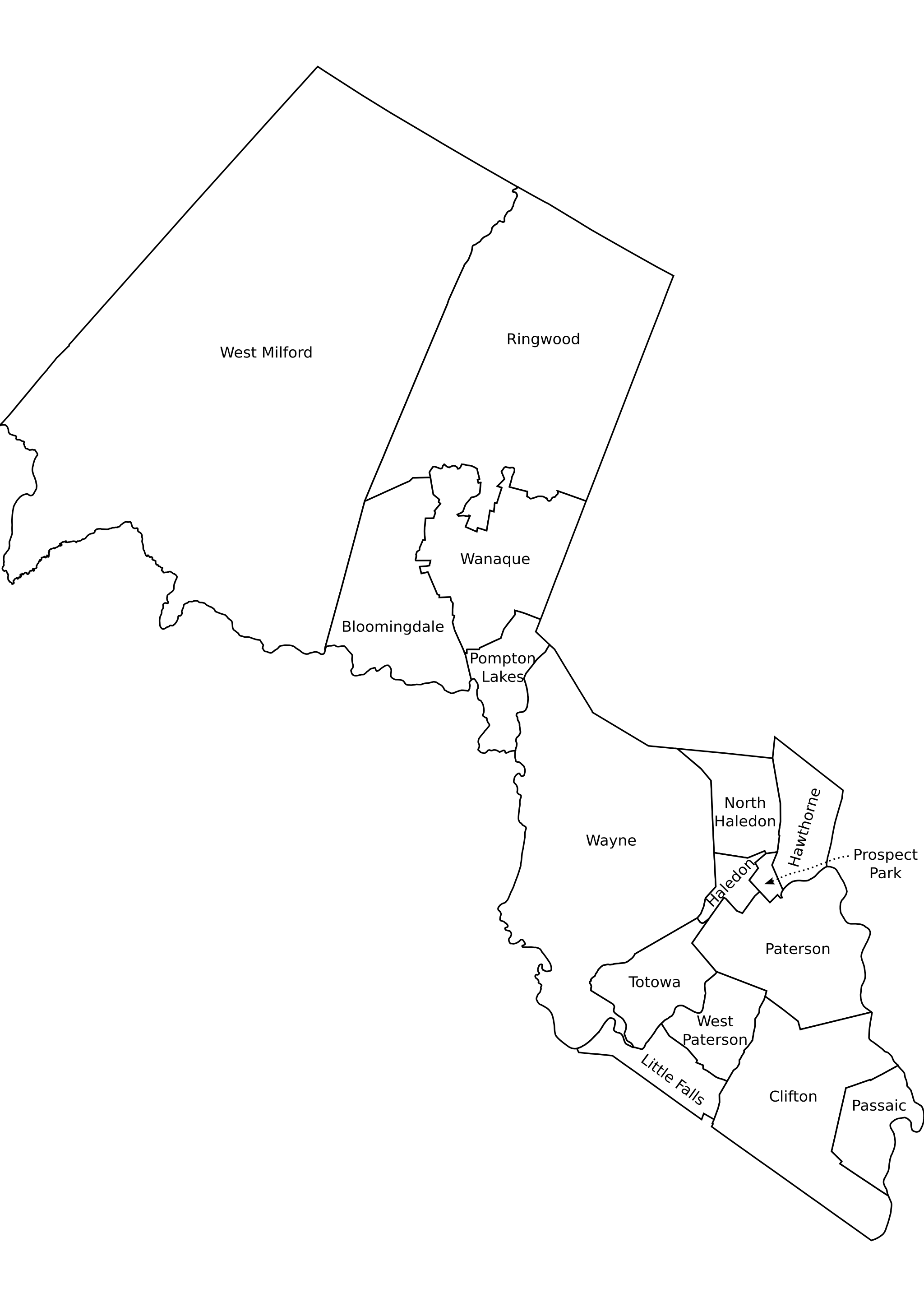 Passaic County, New Jersey outline map of municipalities, labeled. Sources: NJDEP publishes Arcview shape format outline maps of counties and municpalities. Believed ((PD-ineligible)). [1] Converted to SVG, edited in inkscape Labeled according to [2] SVG source: Image:Passaic County, NJ municipalities labeled.svg